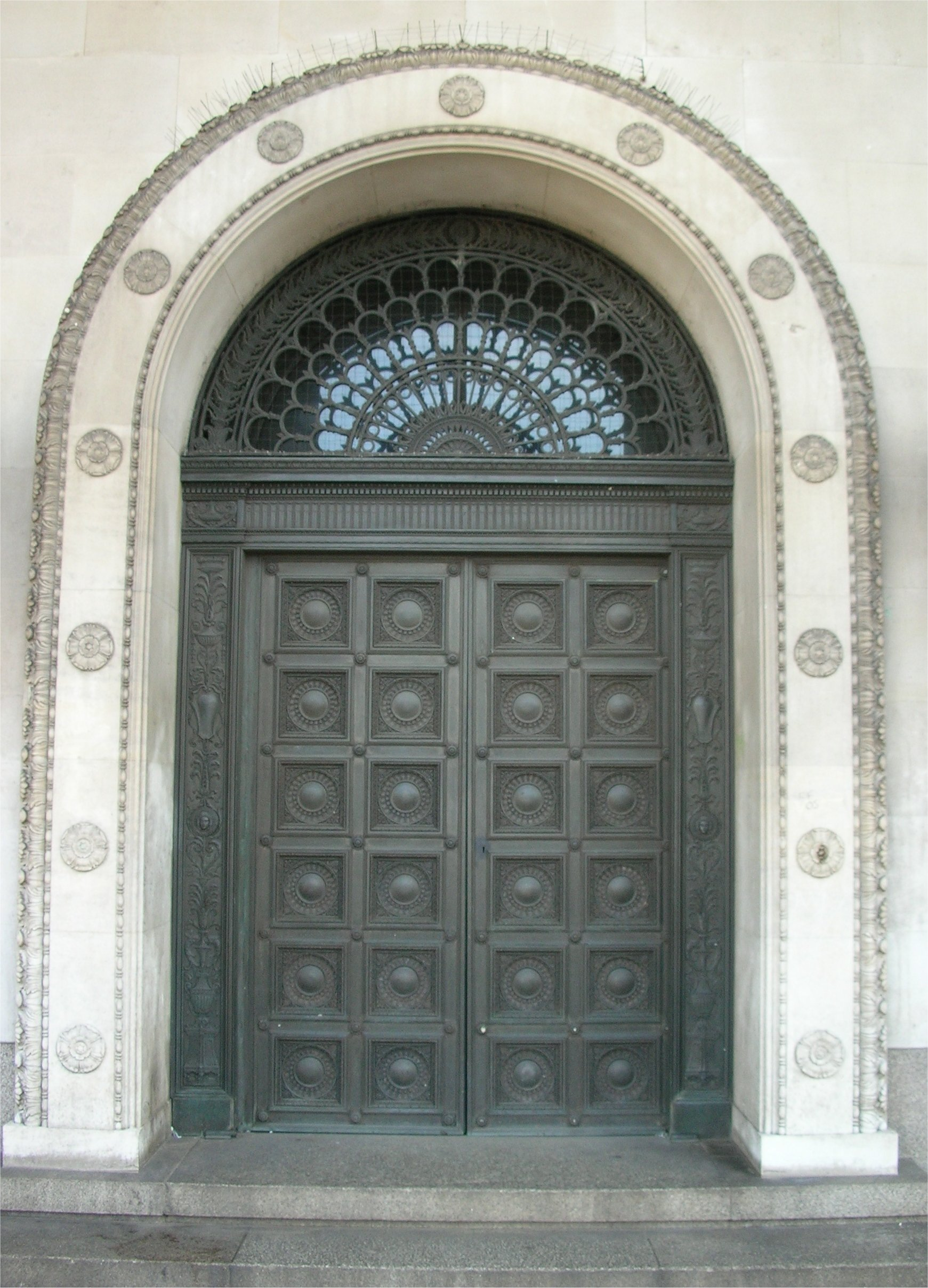 Metal clad doorway to grade II listed Birmingham Municipal Bank on Broad Street, Birmingham. Merged into the Trustee Savings Bank (TSB), then Lloyds TSB, it has now become redundant. Photographed by me 6 April 2007. Oosoom